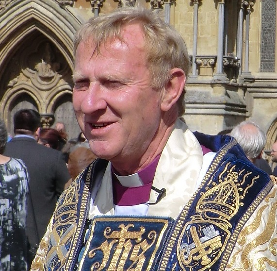 Peter Hancock, Bishop of Bath and Wells, on Cathedral Green, Wells, shortly after his Installation at Wells Cathedral on 7 June 2014. He is wearing the Coronation Cope, which has been worn by Bishops of Bath and Wells at every coronation since Edward VII.